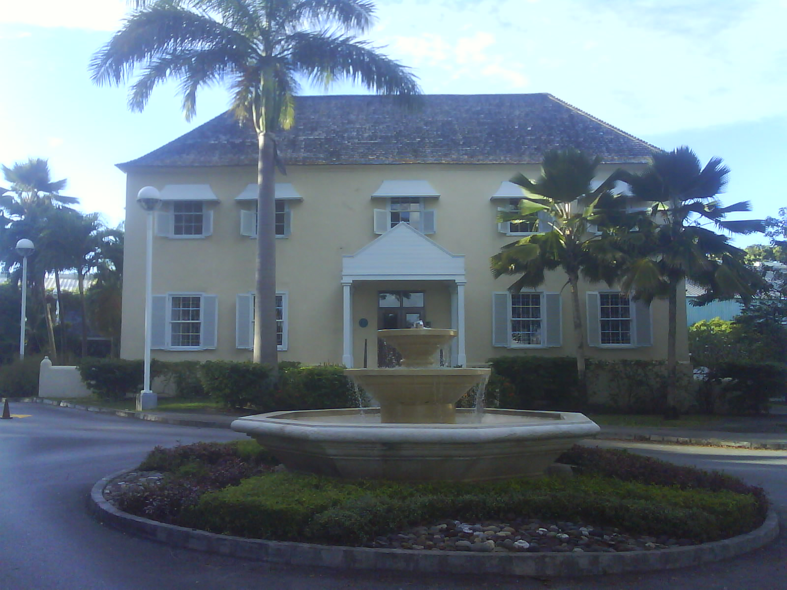 The Warrens Great House at Warrens, St. Michael along the ABC Highway and Highway 2. One of the seven original plantation houses in Barbados.[1]